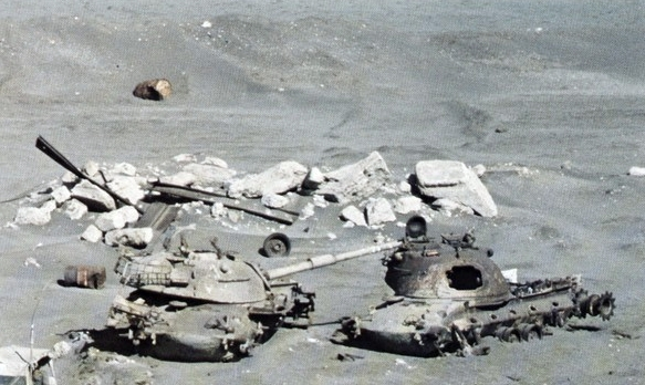 Israeli M48 tanks, wrecked in the 1973 Yom Kippur War, on the banks of the Suez Canal in 1981.